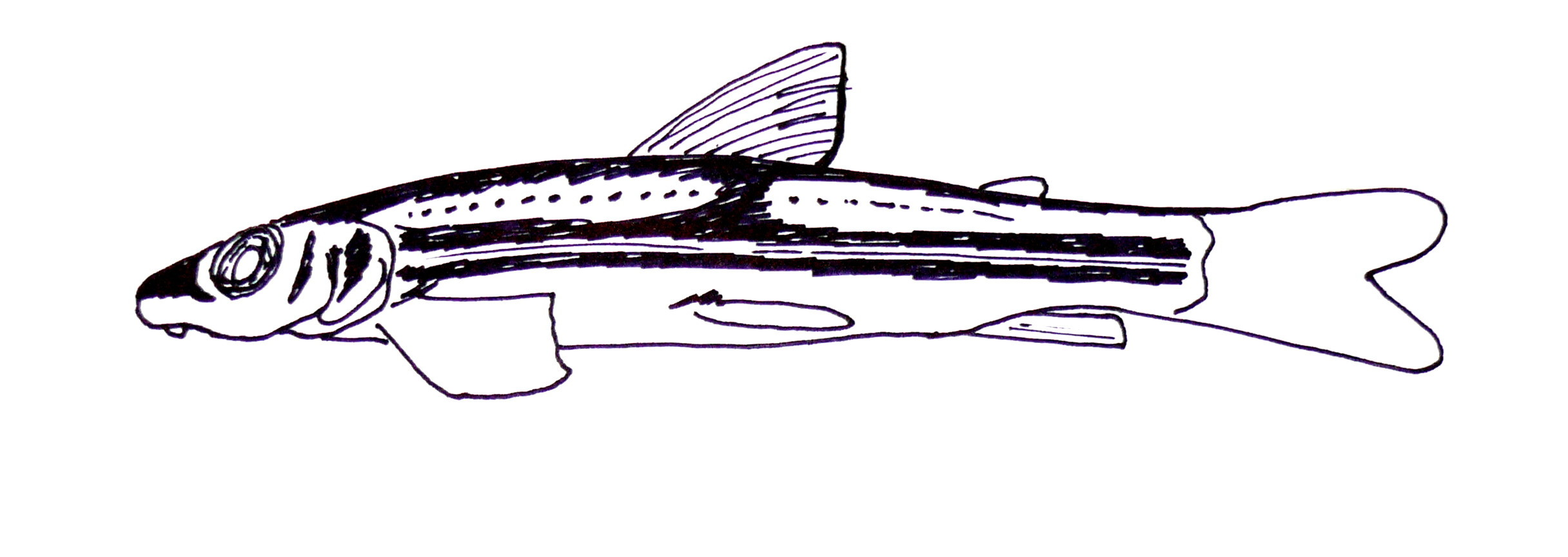 Parodon guyanensis